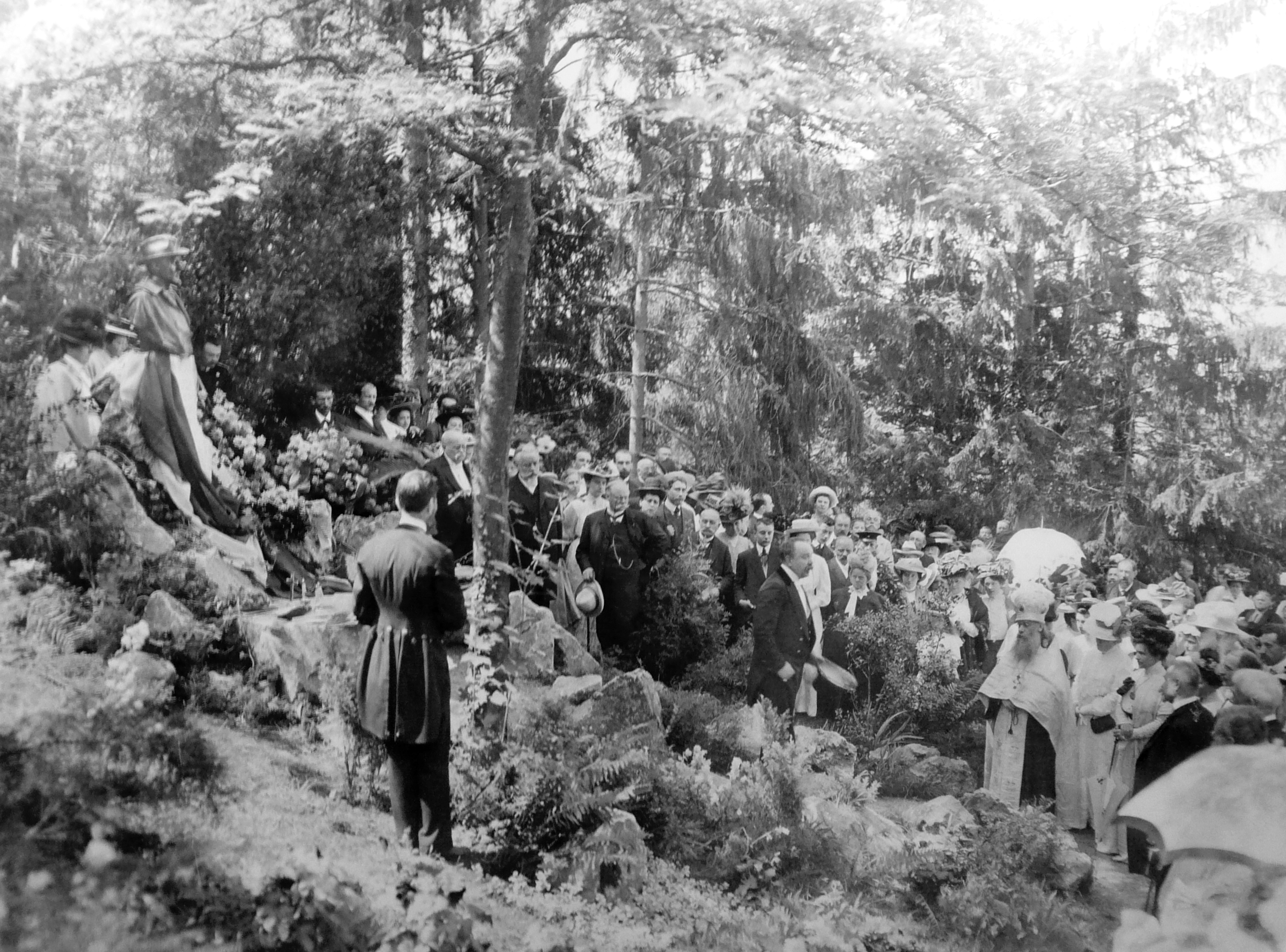 Ceremony in Memory of Anton Chekhov in Badenweiler 1908, 25 July, photo taken in the Chekhov Museum in Badenweiler